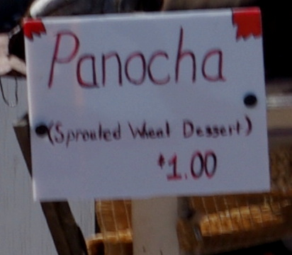 Sign for panocha, near the Santuario de Chimayó, Chimayó, New Mexico, Good Friday